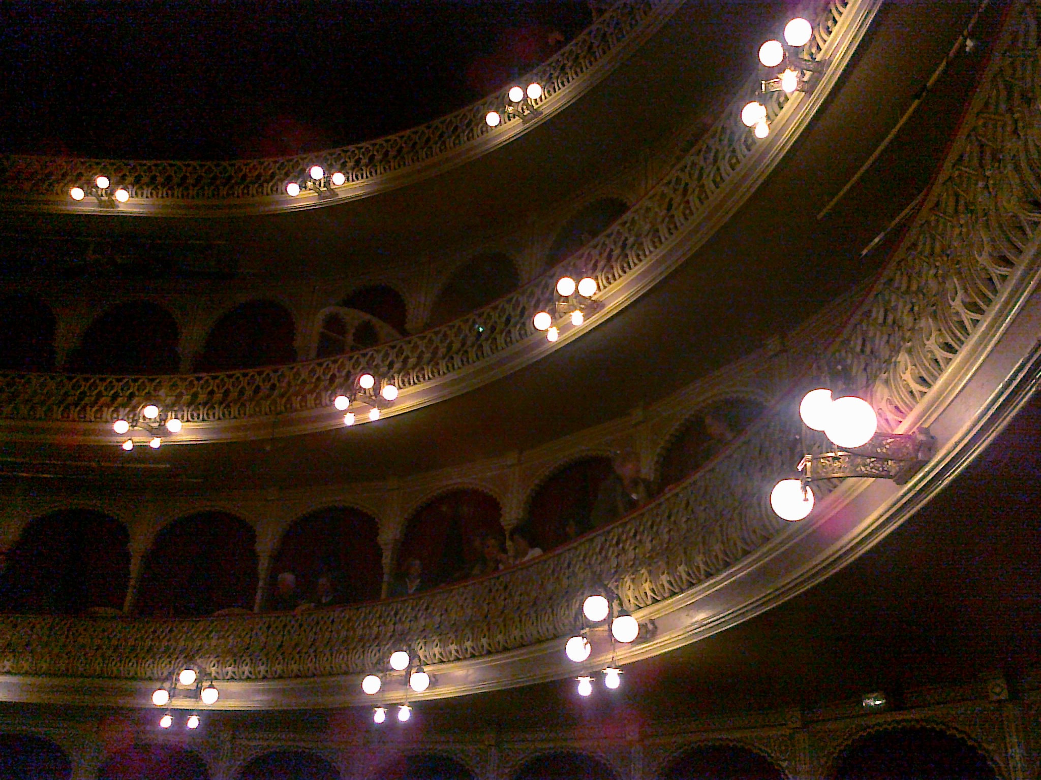 Teatro Falla in Cádiz (Andalusia, Spain)